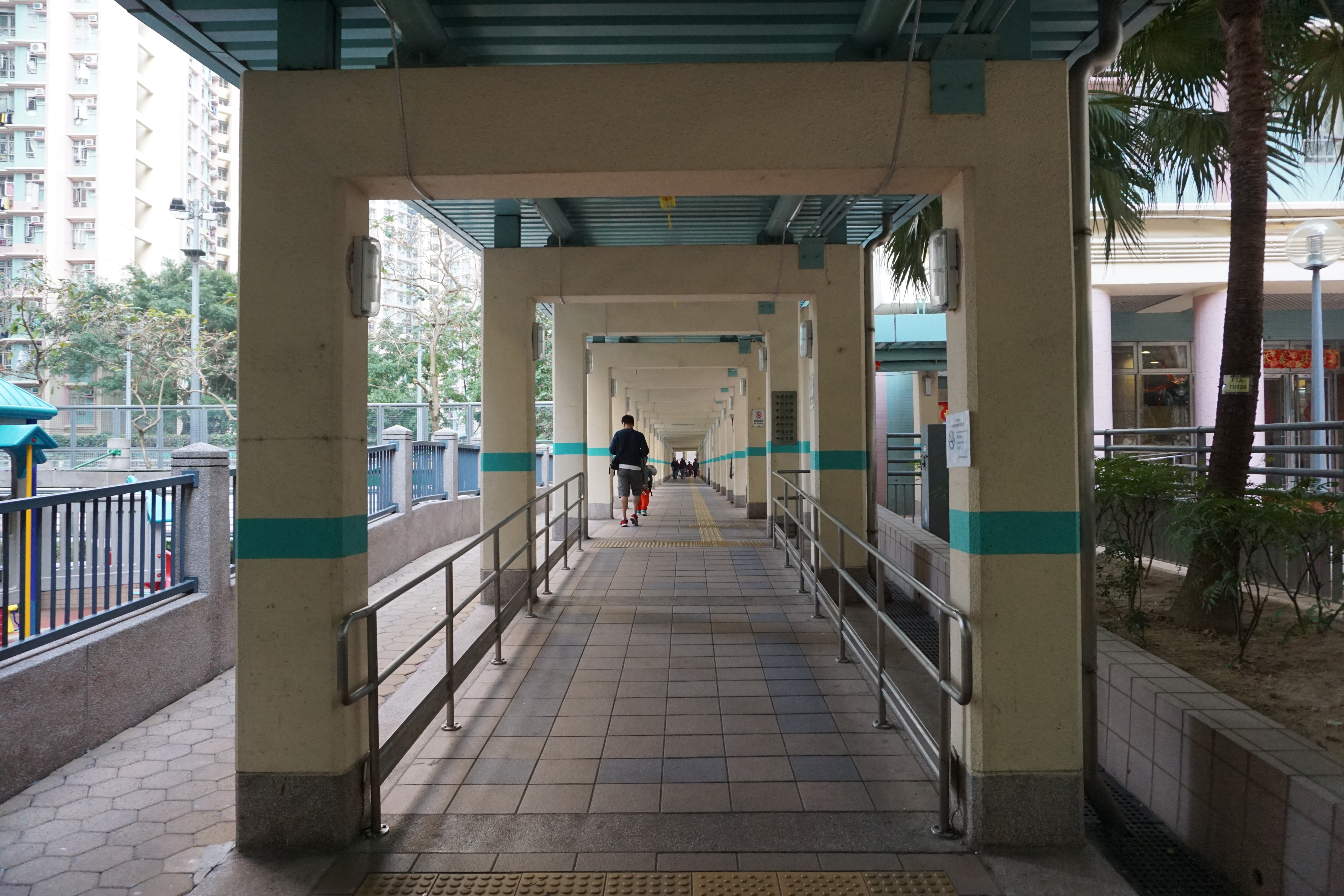 Fu Tai Estate in Tuen Mun, Hong Kong.